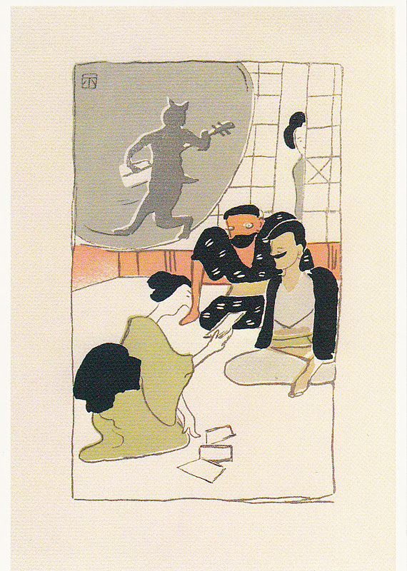 Illustration of "I Am a Cat".